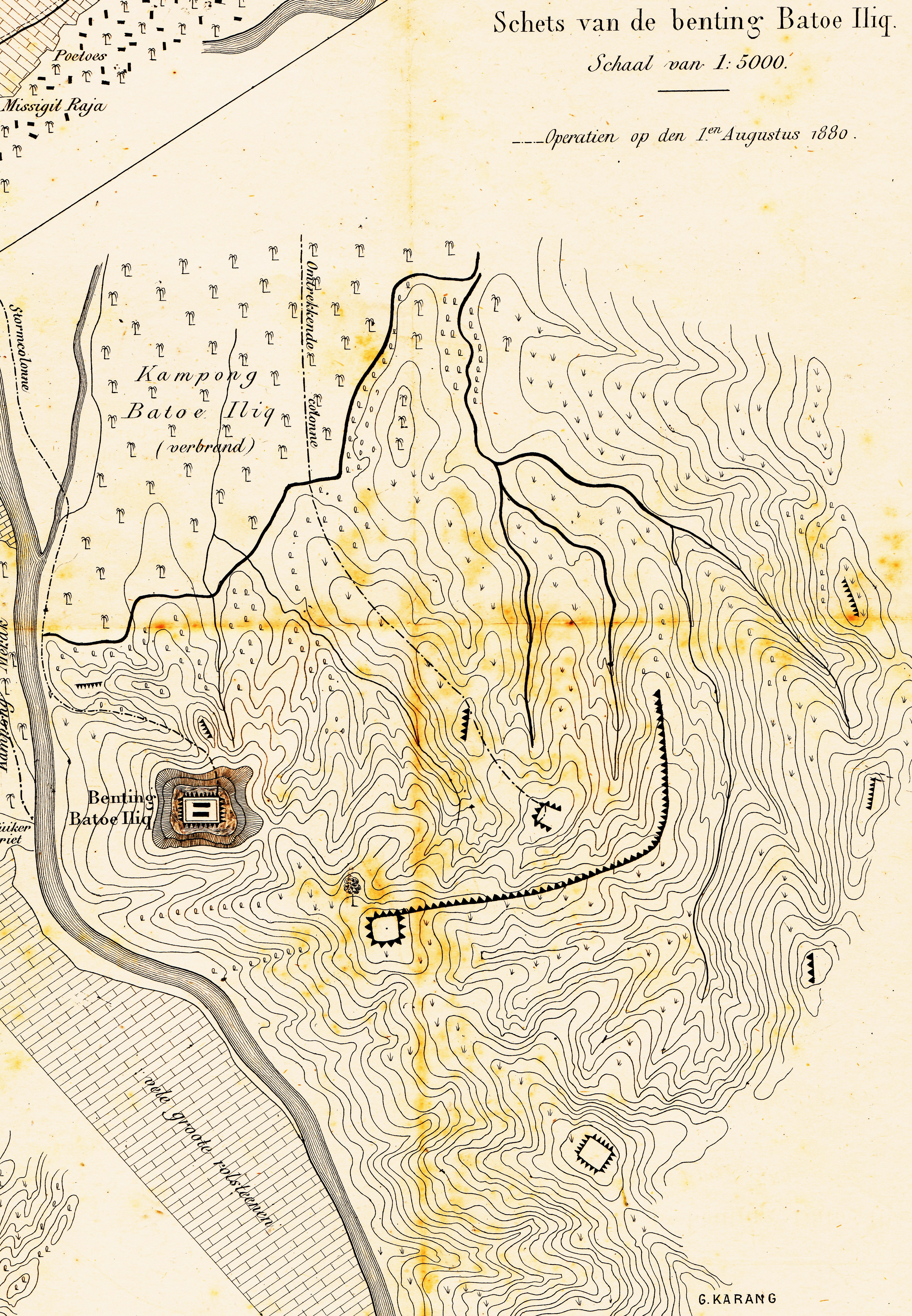 Kaart van Batoe Iliq